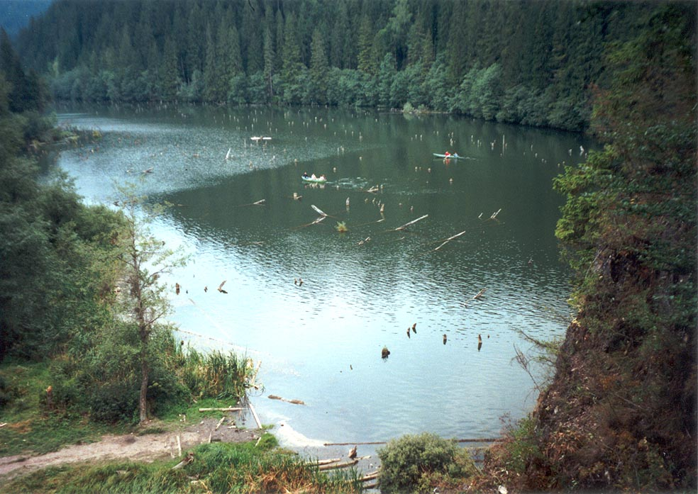 Lacul rosu - in front of the picture is the dam created by earth slide in 1888